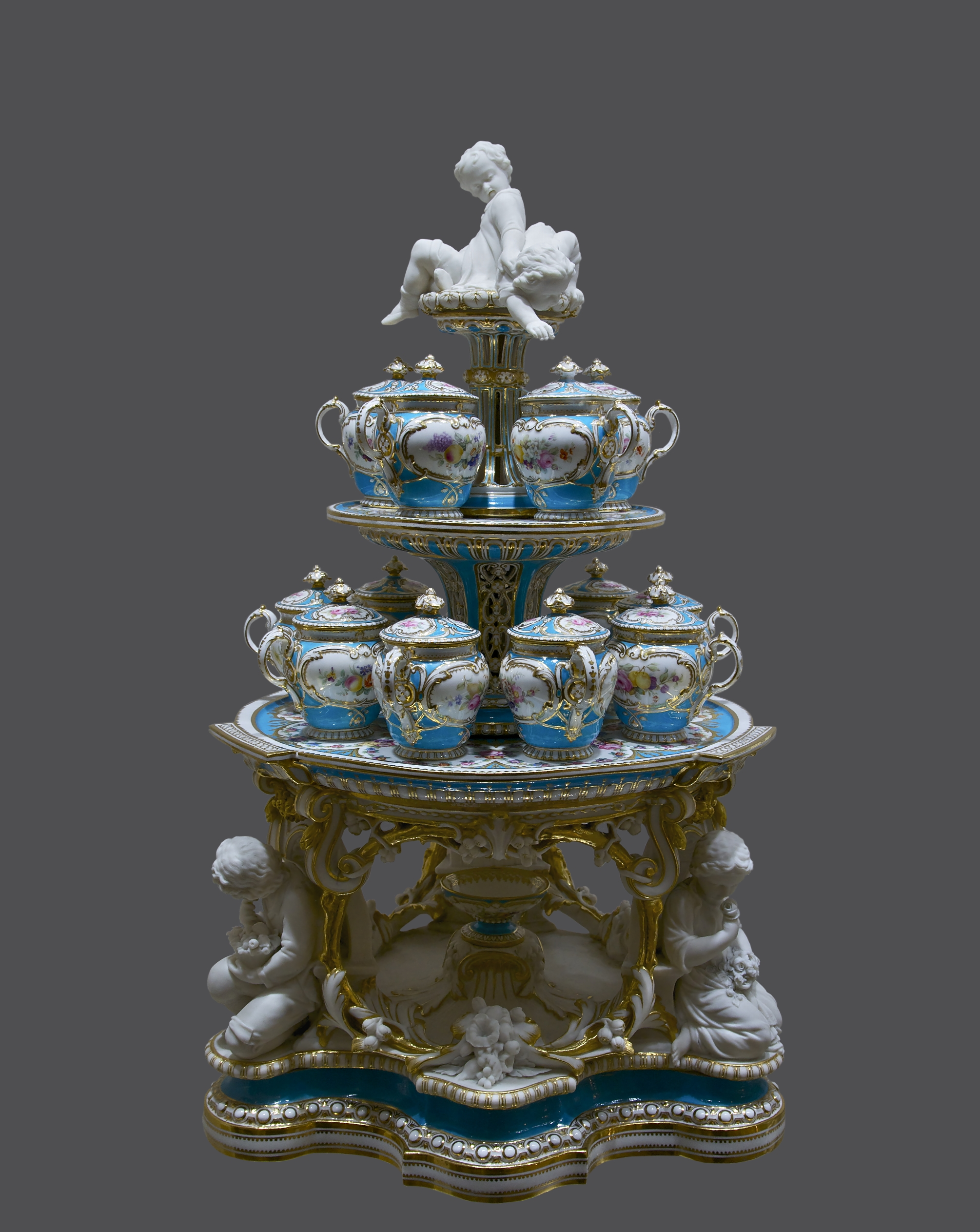 Centrepiece with cream jars of an english dessert service. Colored paintings on the glaze, with gold accents. Herbert Minton & Co Manufacture, Stoke-on-Trent, Great-Britain, 1851. Designer: Joseph Arnoux, Modeler: Pierre-Emile Jeannest Painter: Joseph Bancroft. This centrepiece was part of a dessert service given by Queen Victoria to Emperor Franz Joseph of Austria, on the occasion of The Great Exhibition of London in 1851. Silberkammer, Hofburg palace, Vienna, Austria. Katalog N° 191-193.